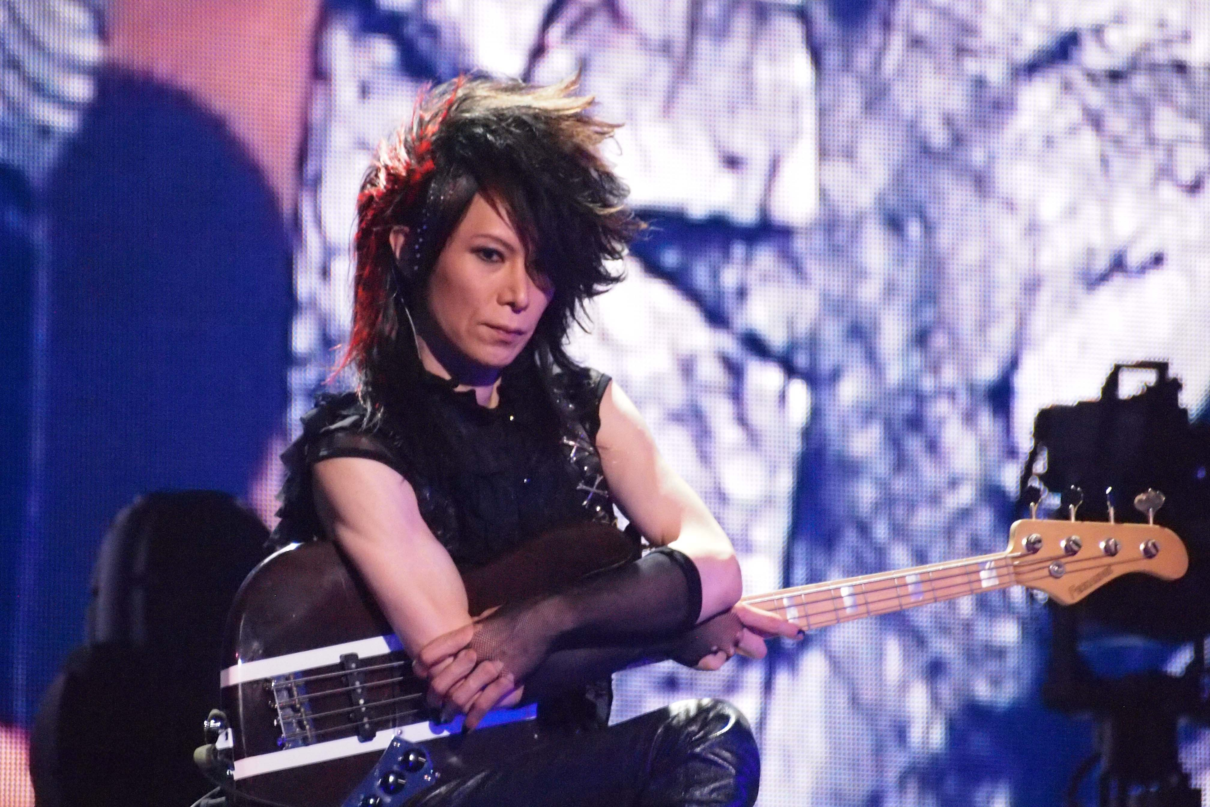 Heath with X Japan at Madison Square Garden, in New York, on October 11, 2014.